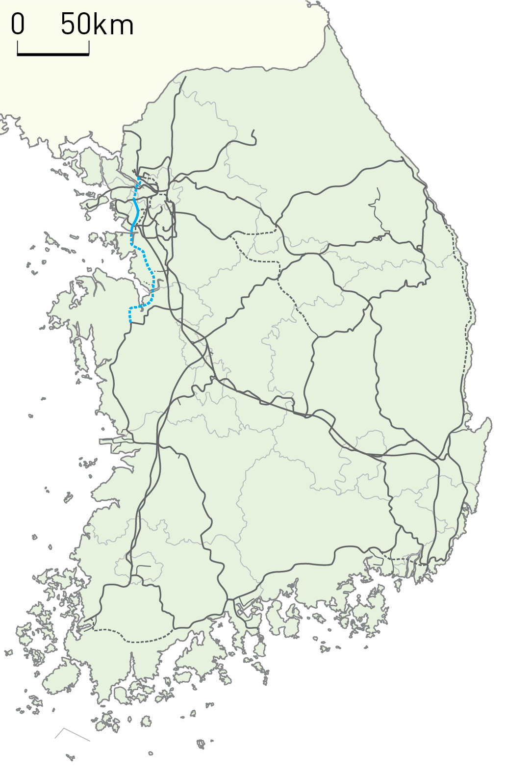 Korail Seohae Line route map